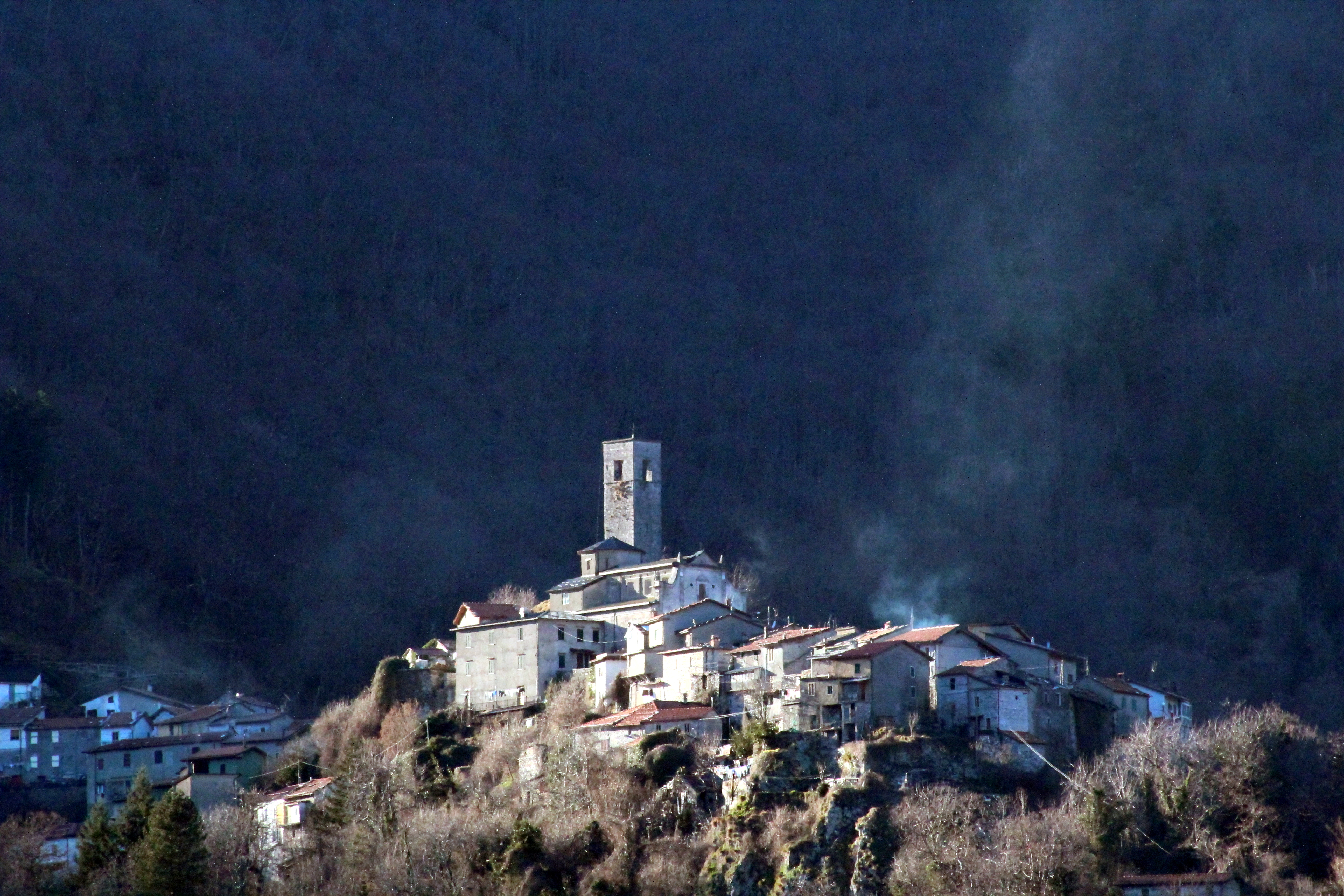 Panorama of Vagli Sopra, hamlet of Vagli Sotto, Garfagnana, Province of Lucca, Tuscany, Italy